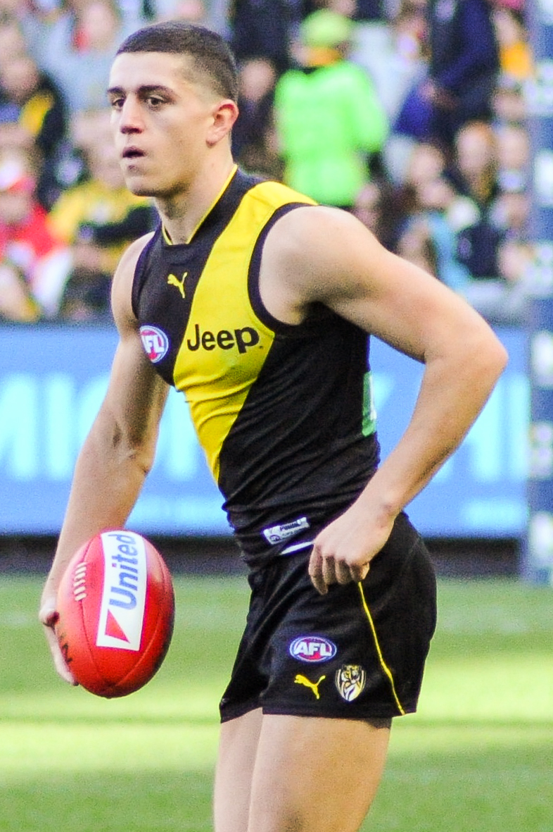 Jason Castagna during the AFL round thirteen match between Richmond and Sydney on 17 June 2017 at the Melbourne Cricket Ground in Melbourne, Victoria.